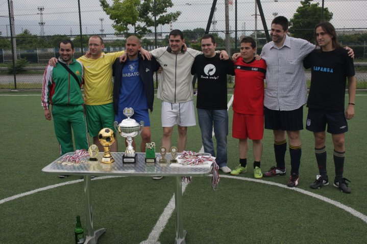 Plovdiv Amateur Sport Organization